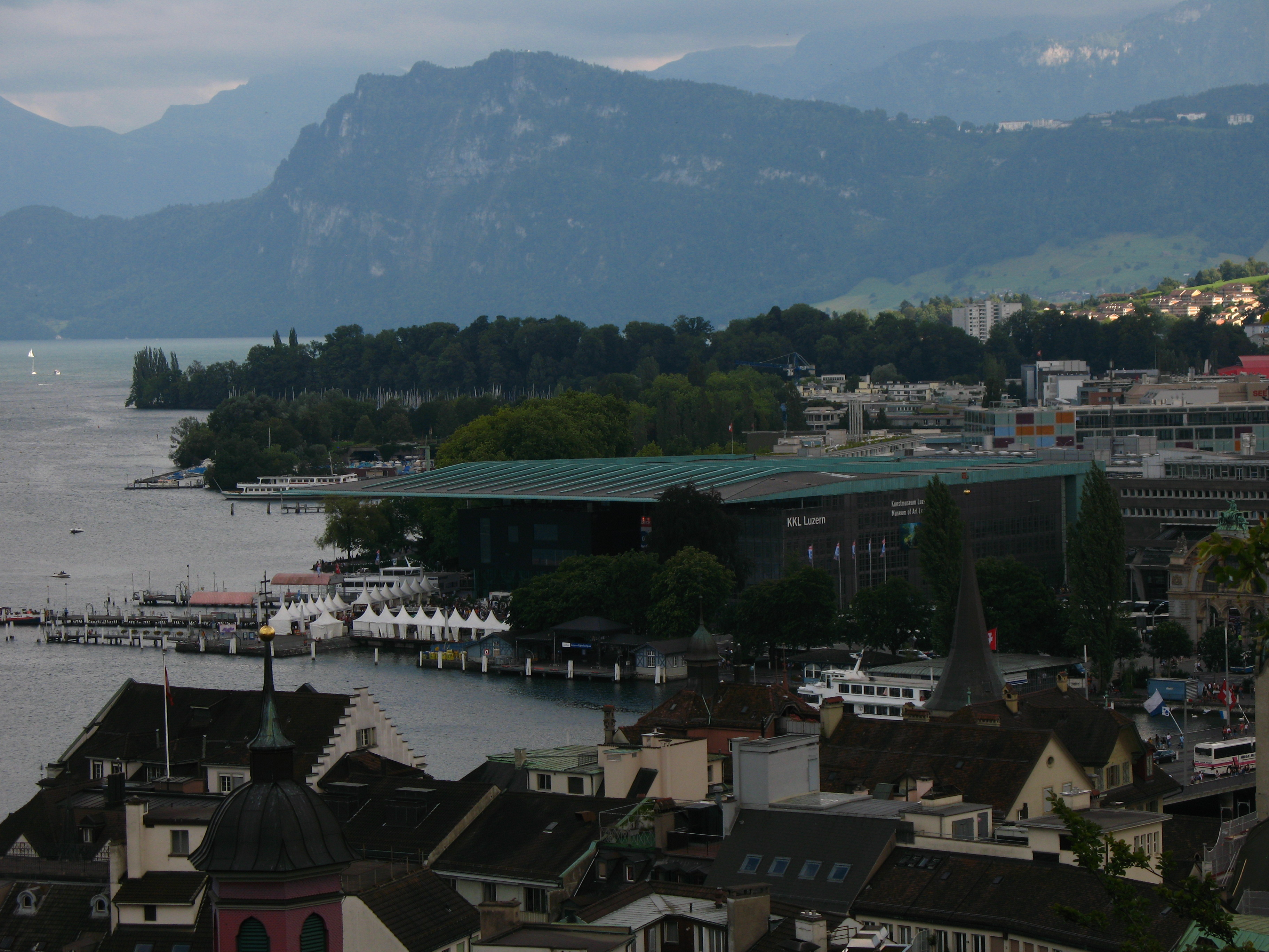 Culture and Convention Center viewed from Schirmer Tower, Luzern, Switzerland